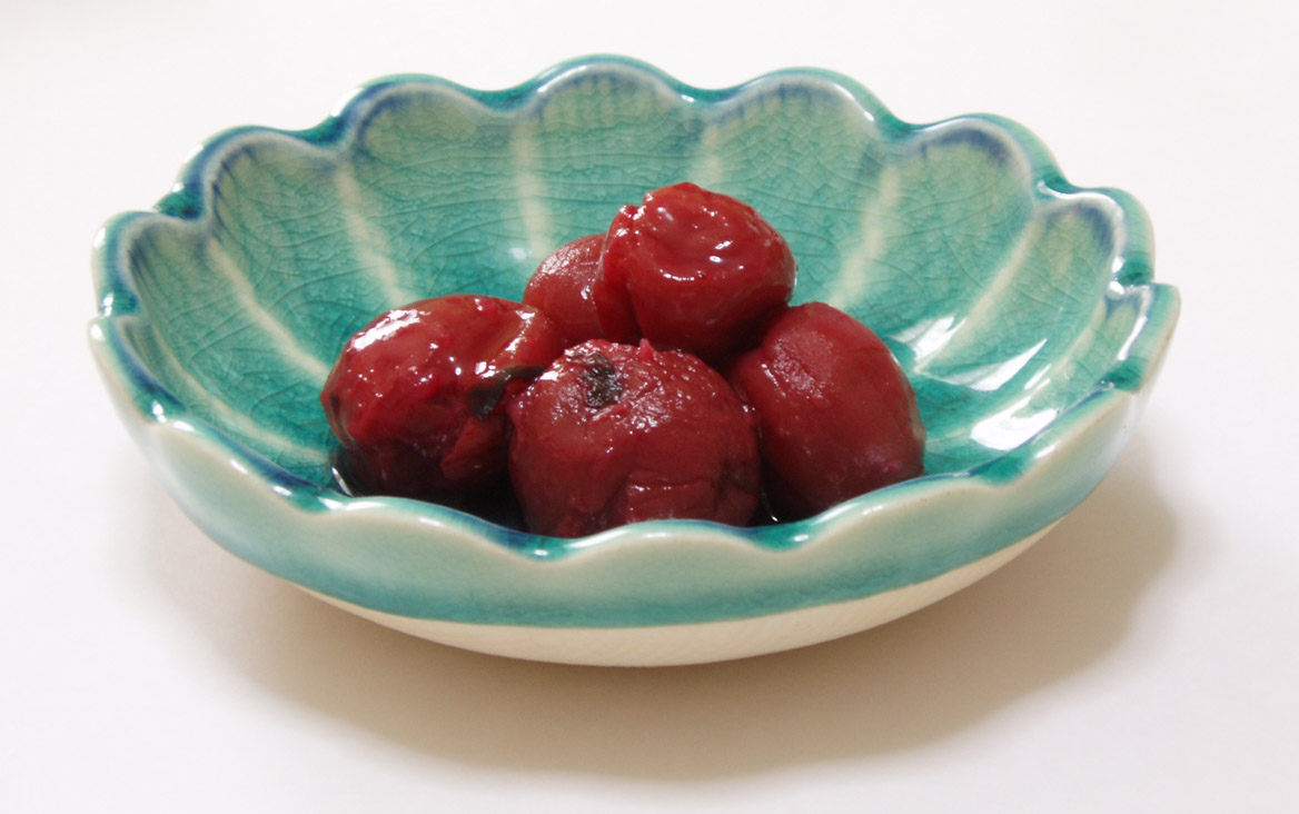 Umeboshi, the kind of pickled food